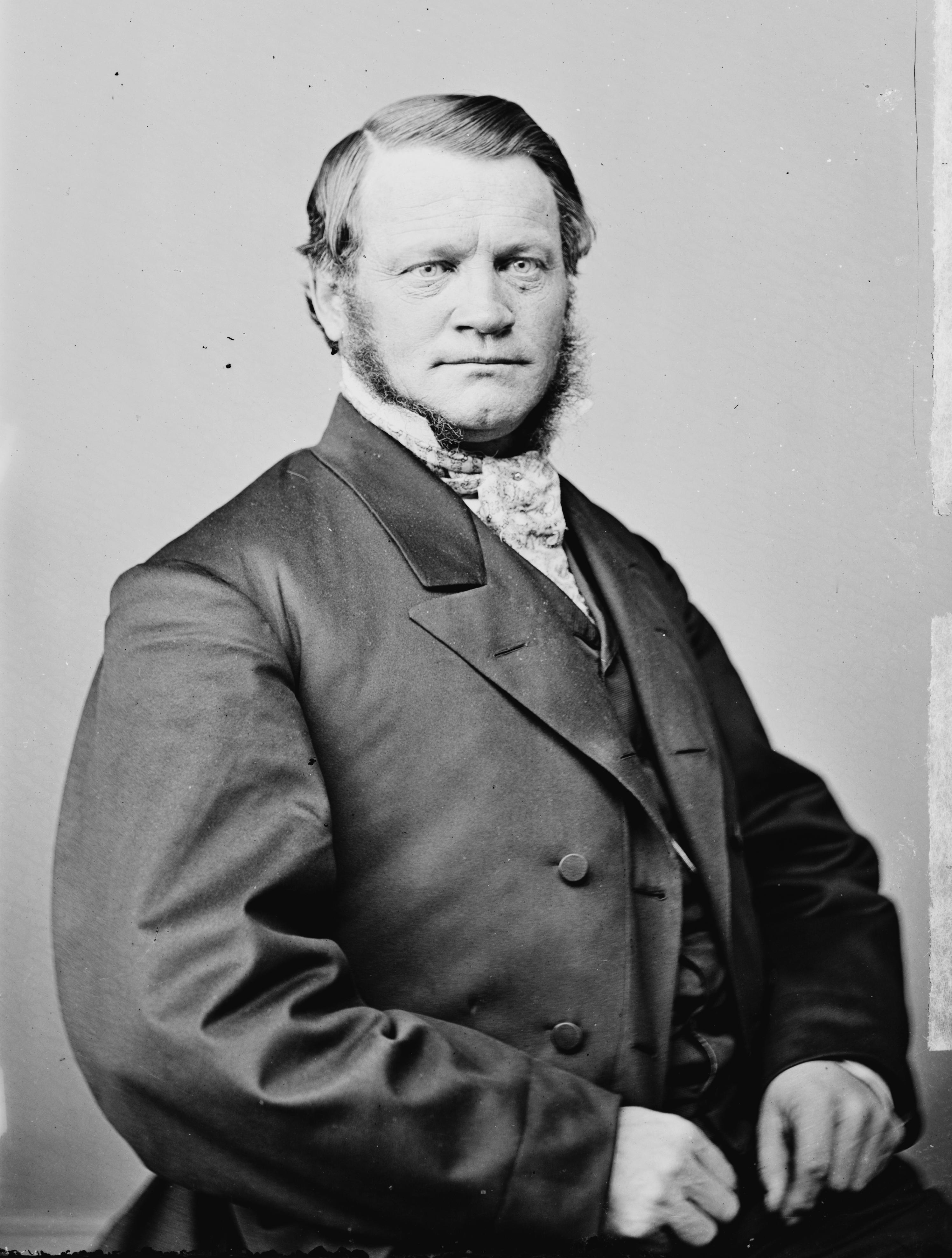 Josiah Bushnell Grinnell. Library of Congress description: "Hon. Josiah Bushnell Grinnell of Iowa."